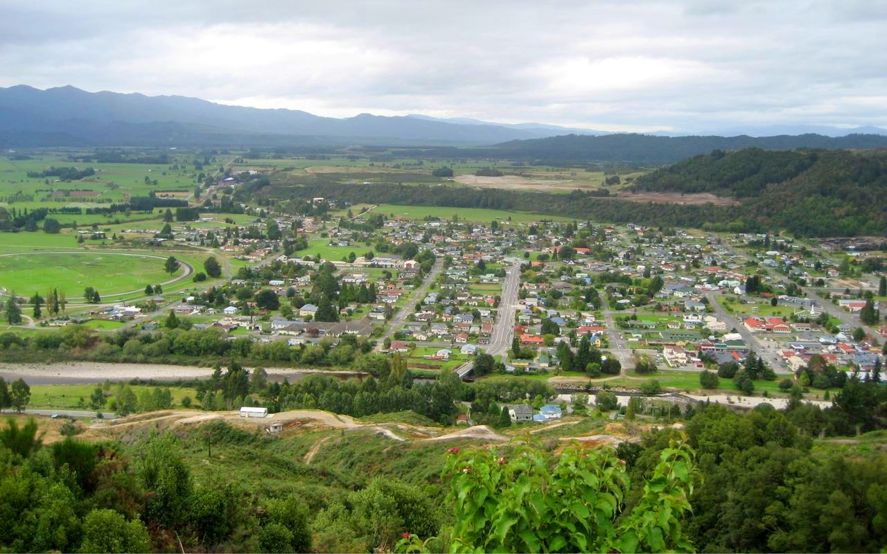 Reefton is a small town on New Zealand's West Coast region, some 80 km northeast of Greymouth, in the valley of the Inangahua River.